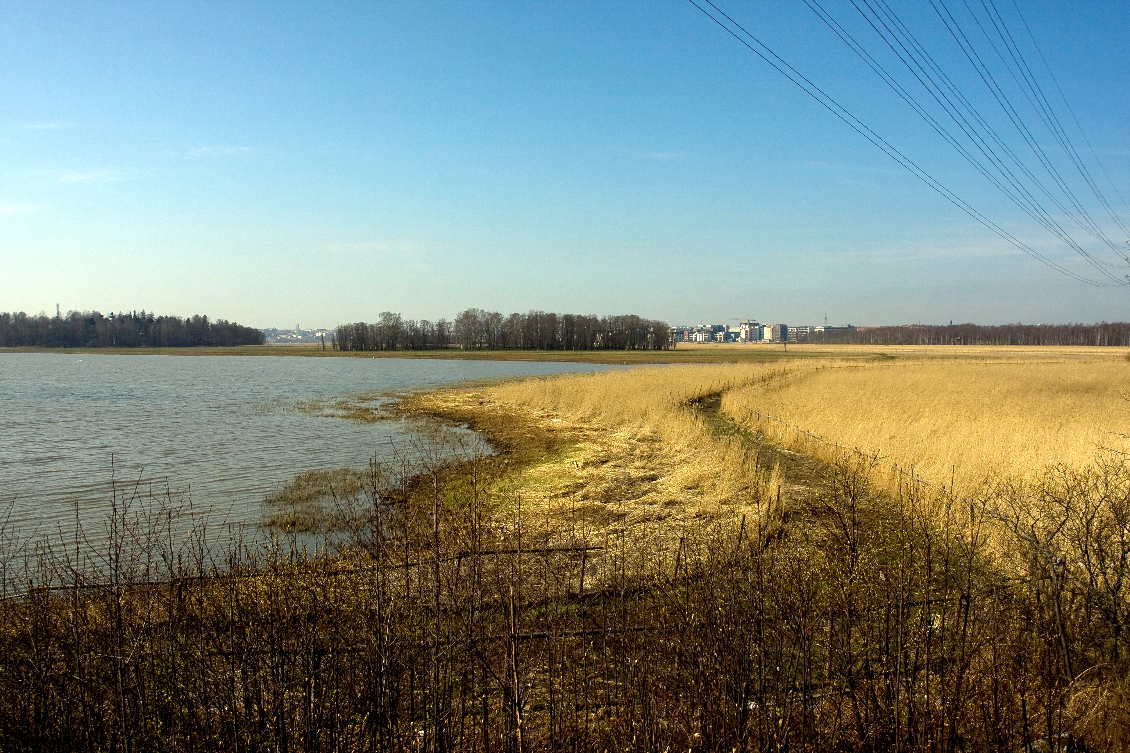 A general view on Vanhankaupunginlahti area near downtown Helsinki, Finland. The area is listed in Ramsar Convention on Wetlands of International Importance, is part of European Union's Natura 2000 program and is also listed as BirdLife International's Important Bird Area.